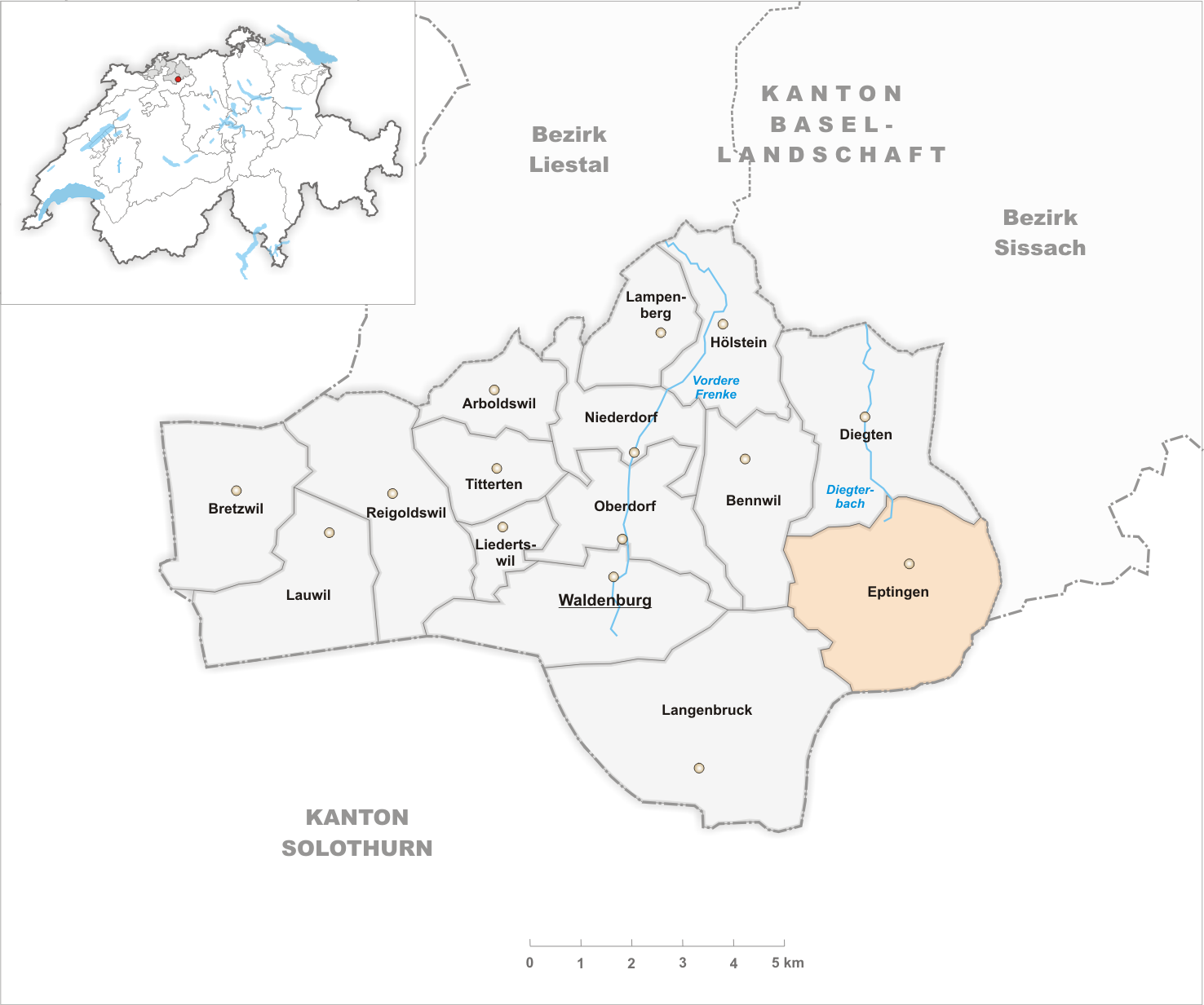 Municipality Eptingen